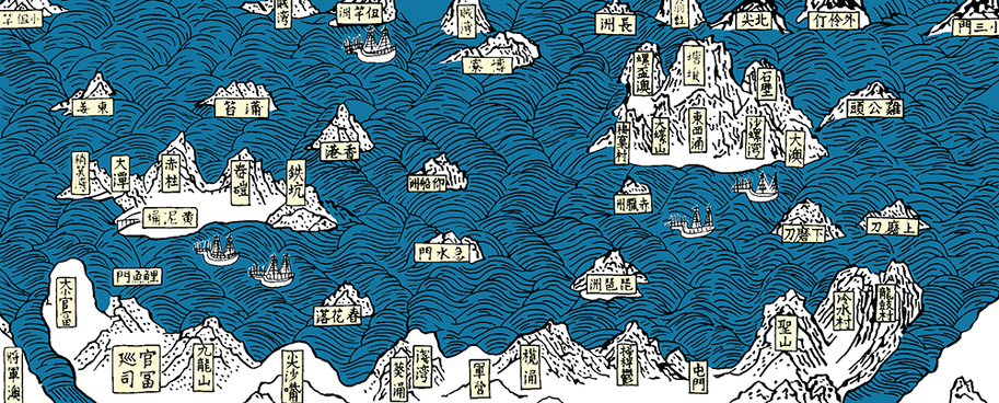 Color Redraw of the Coastal Map of Guang Dong (1595) from Yuet Tai Kei (粵大記) Originally drawn by Kwok Fei (郭棐)